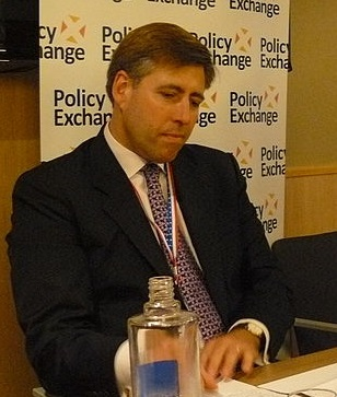 Policy Exchange Conservative Conference Fringe Event: What can the Conservatives do for the North? 04.10.11